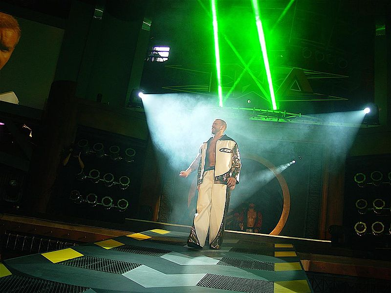 Christian Cage aka " Instand Classic " Photo by Rob Beukema